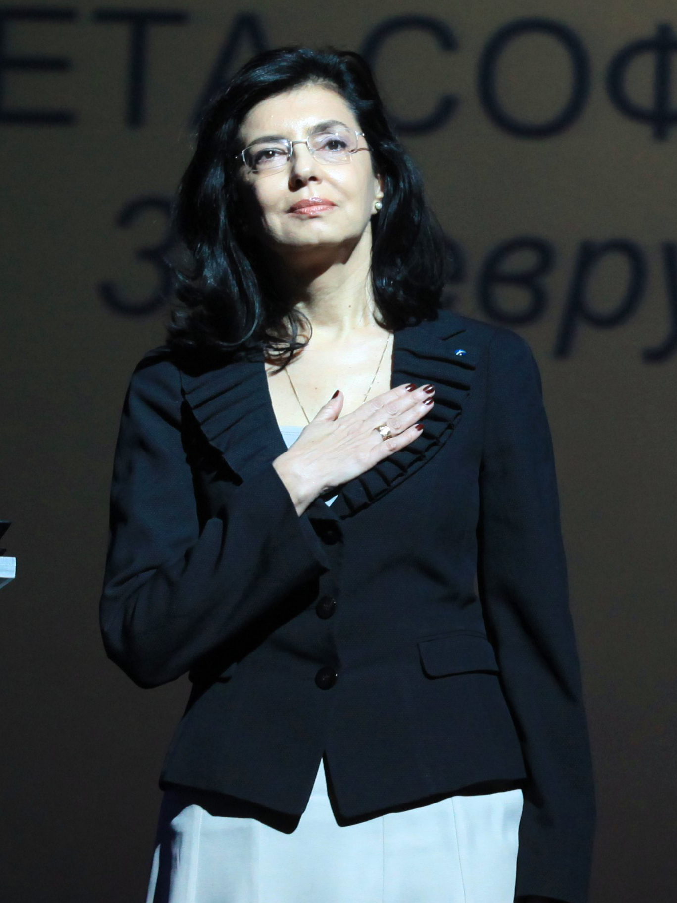 Meglena Kuneva, Chairman of Movement BG